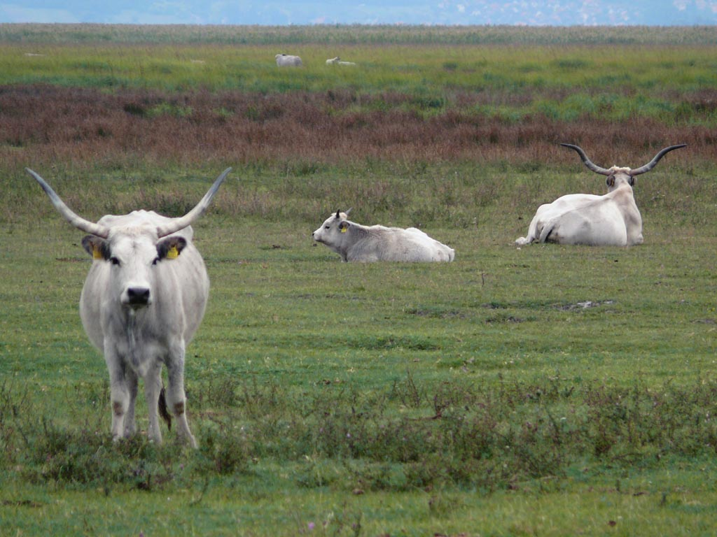 Nationalpark Neusiedler See: Hungarian Grey cattle, cows